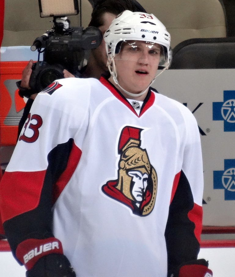 Ottawa Senators forward Jakob Silfverberg during game two of their second round series against the Pittsburgh Penguins, May 17, 2013 at Consol Energy Center in Pittsburgh, PA.